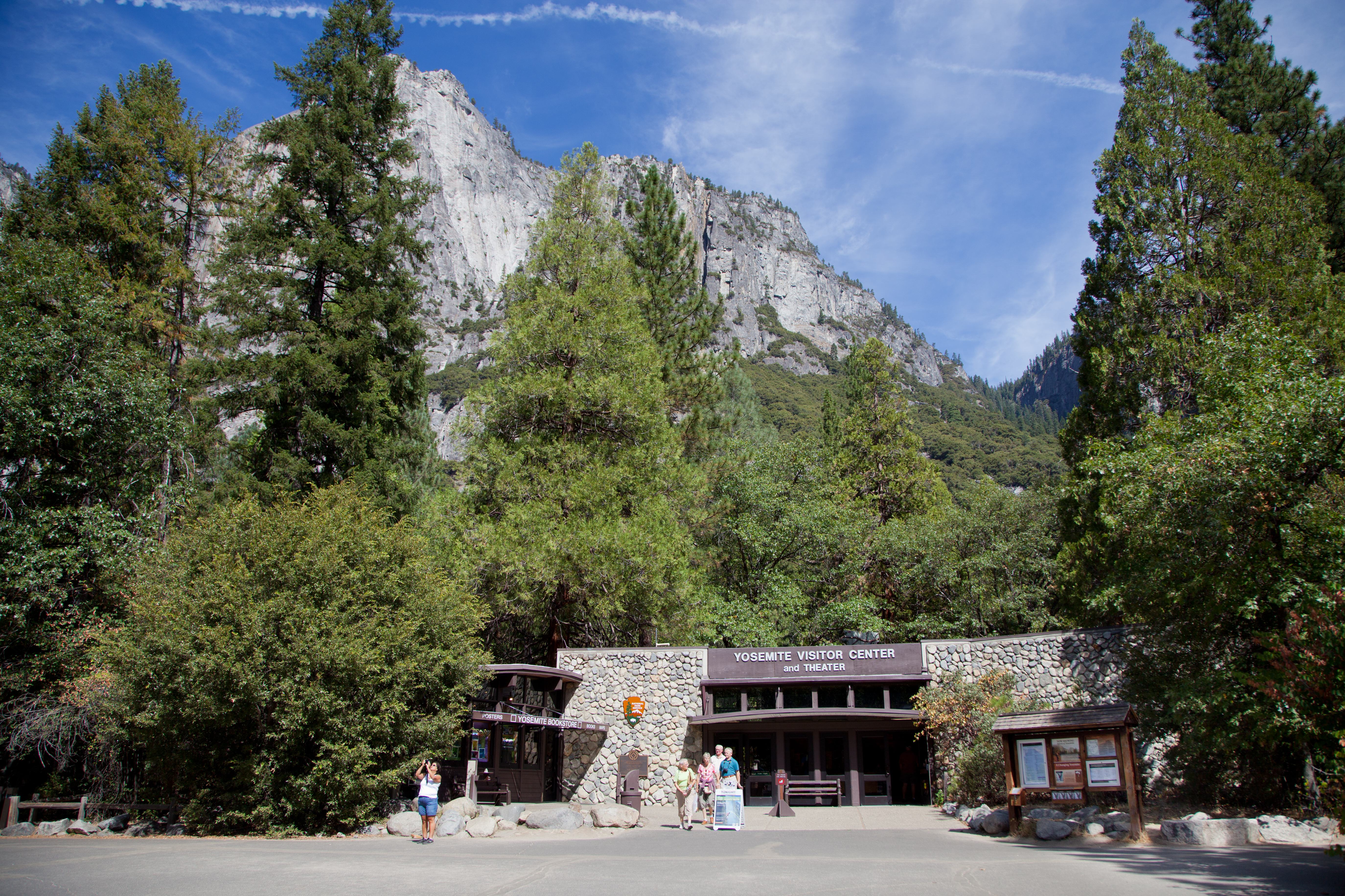 National Park Service visitor center in the Yosemite Village Historic District, Yosemite Valley. A Mission 66 project, on the National Register of Historic Places in Yosemite National Park, California.